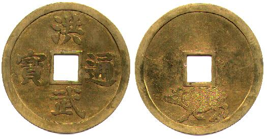 119 mm Obv. Hung Wu T'ung Pao Rev. Bottom: Bull Meaning: Ref.: Section 1.81: "Charms with coin inscriptions: Hung Wu T'ung Pao" Hung Wu T'ung Pao Dynasty: Ming (1368-1644 a.d.) Emperor: T'ai Tsu (1368-1399 a.d.) Years title: Hung Wu (1368-1399 a.d.)